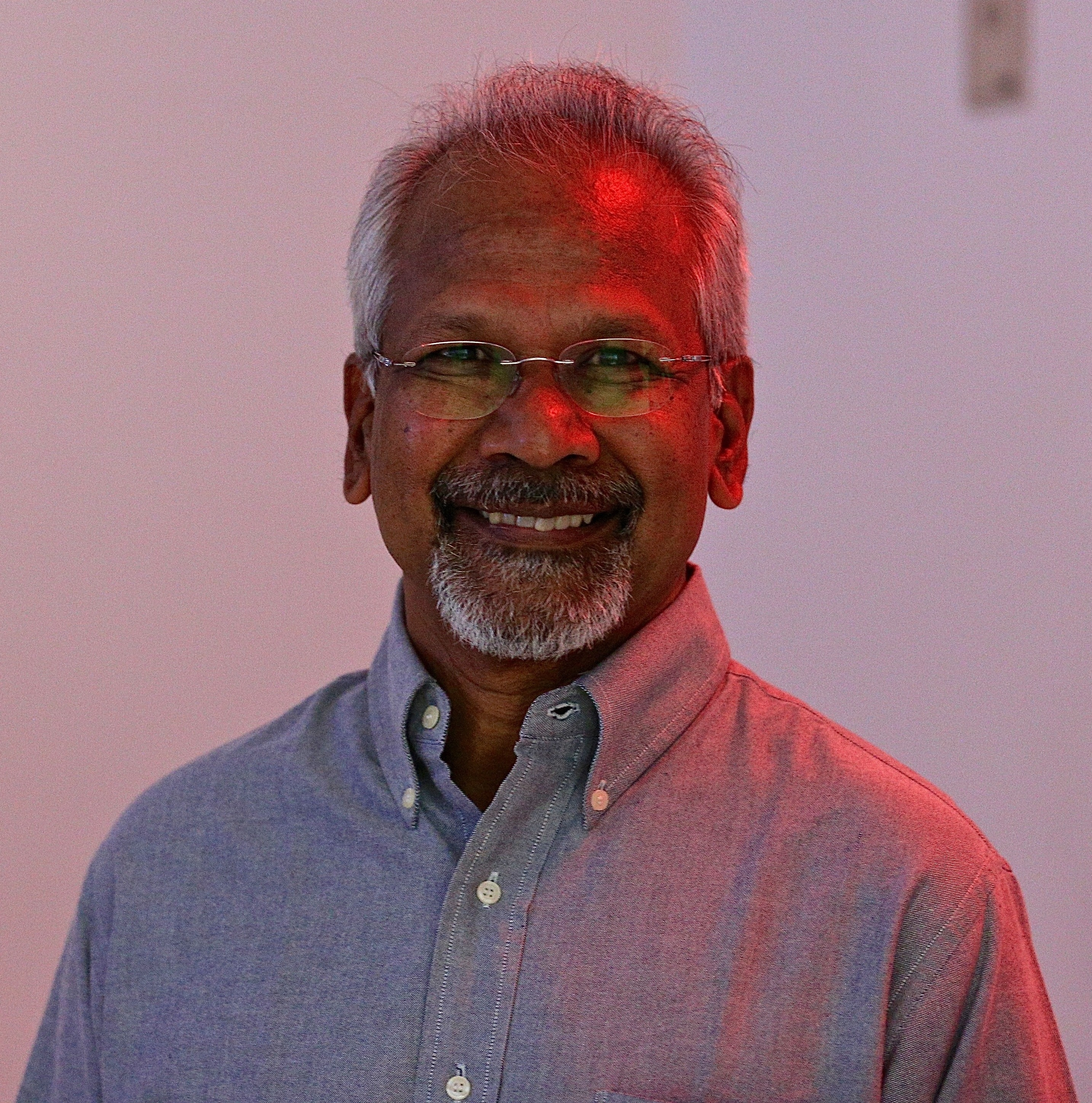 Indian filmmaker Mani Ratnam at the Museum of the Moving Image (New York City)